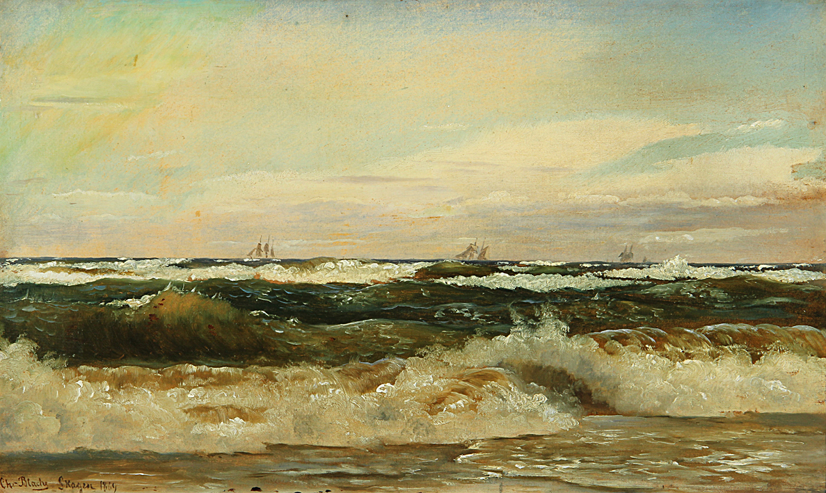 Sailboats on the sea, view from the beach in Skagen, oil painting by the Danish artist Christian Blache.